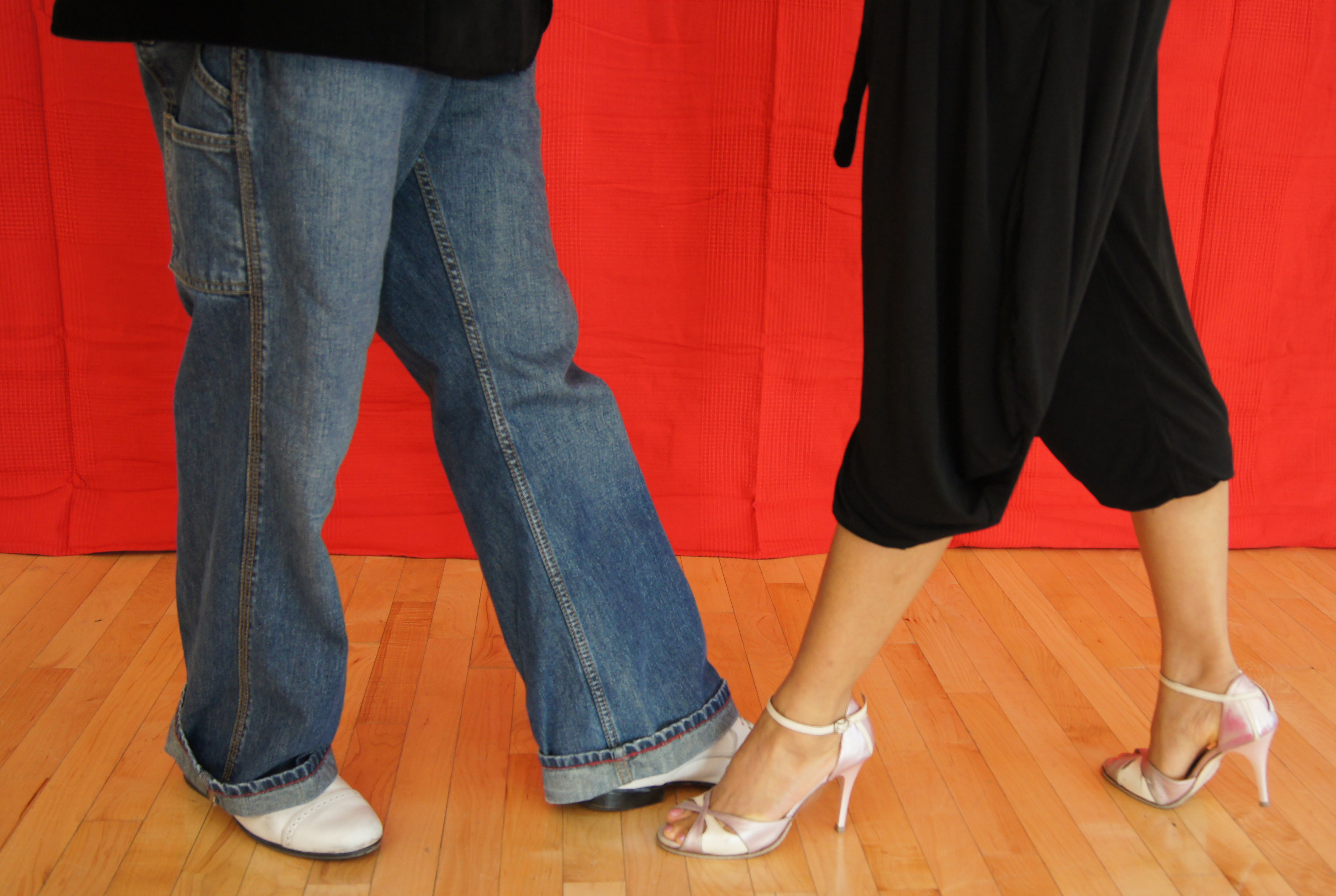 Tango walk (parallel, normal). Homer and Cristina Ladas, Stanford, CA.